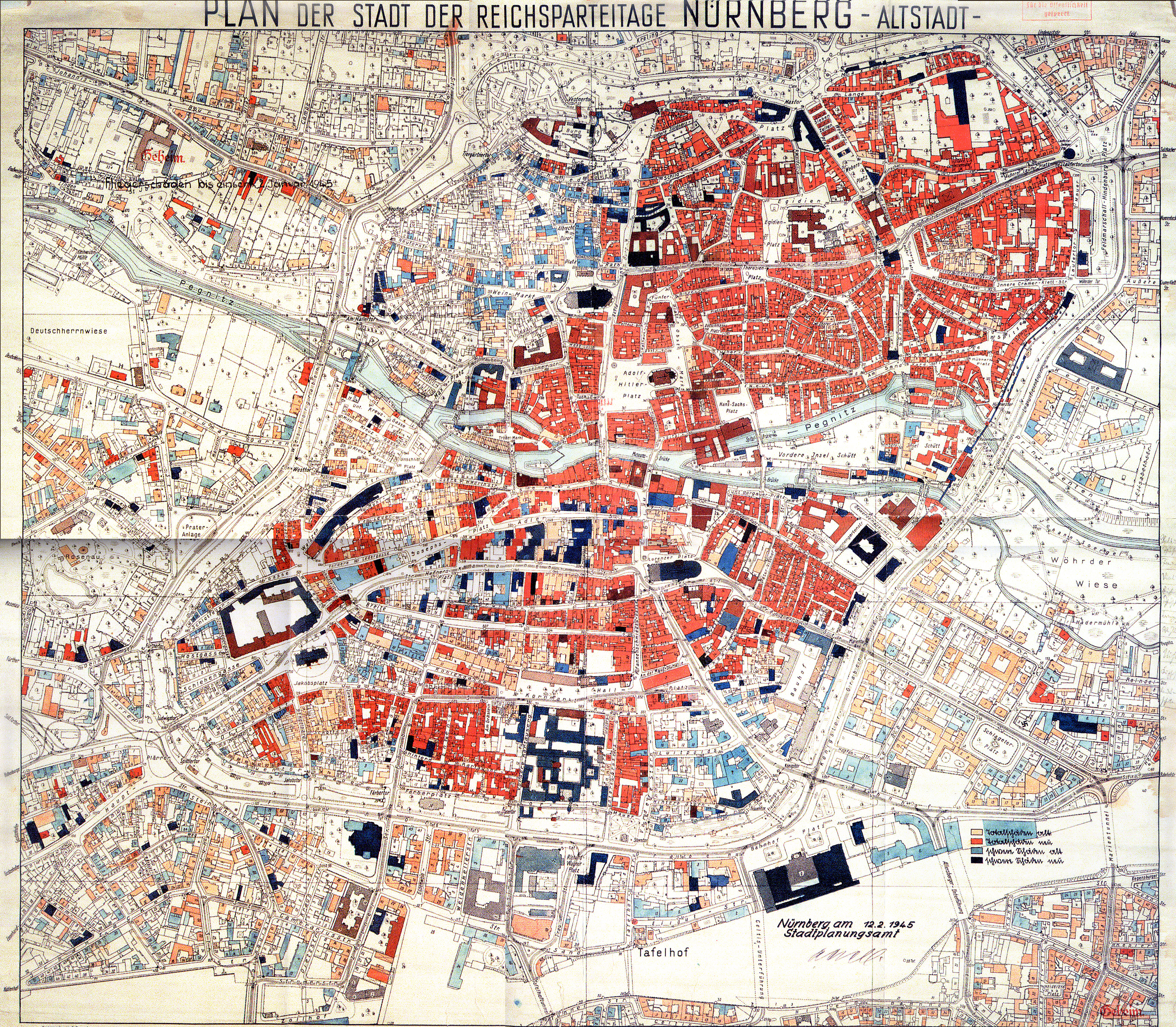 Map of Nuremberg showing the damage caused by Allied air raids Color legend: bright red: total loss old dark red: total loss new blue: grave damage old black: grave damage new Old damage/loss = up to and including January 2nd 1945